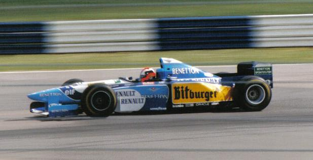 Johnny Herbert driving for Benetton Formula at the 1995 British Grand Prix.